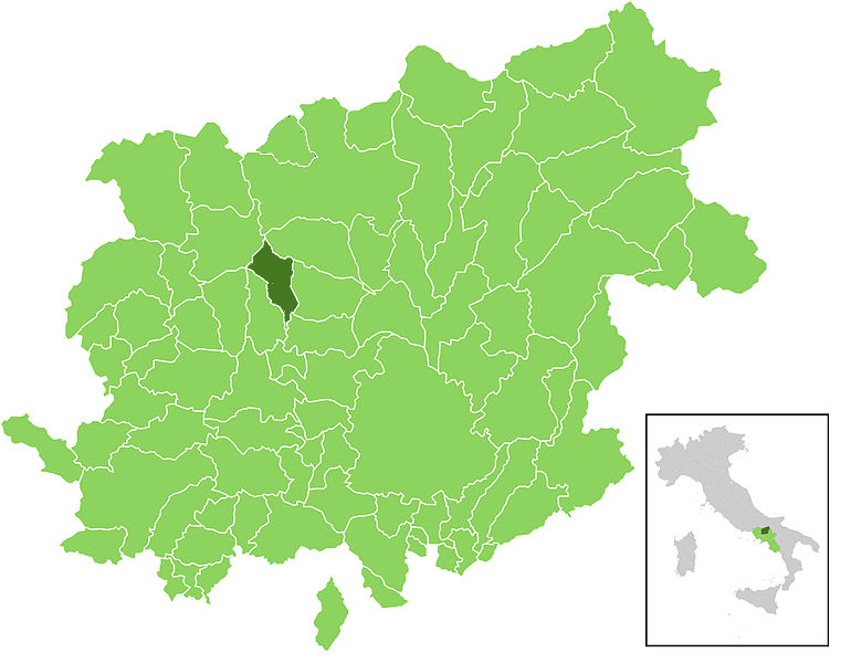 Map of the italian town of San Lupo, Campania